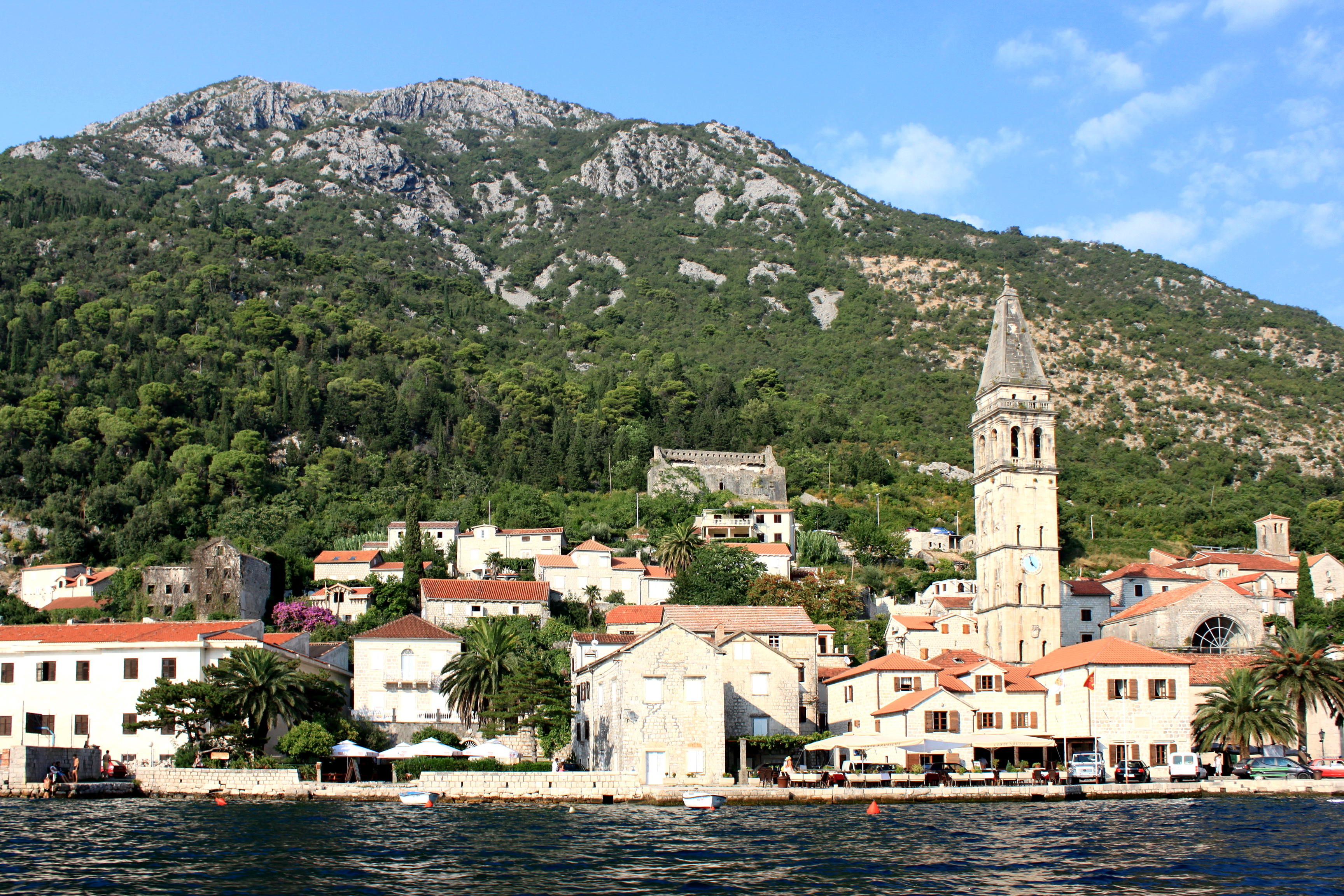 View of the city from the sea. Perast, Montenegro.